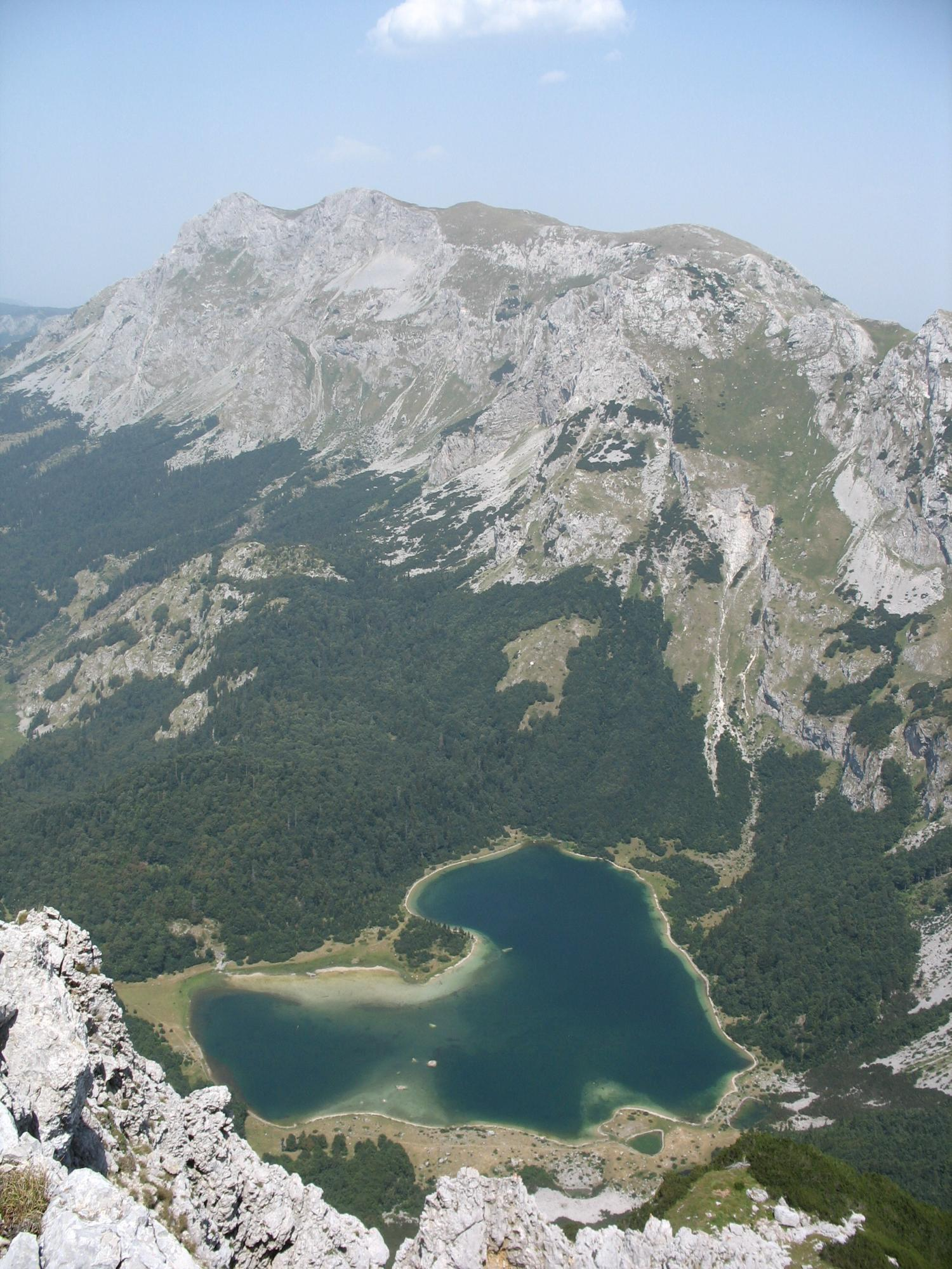 Trnovačko lake and Maglić Mts. from Trnovački Durmitor in Montenegro)